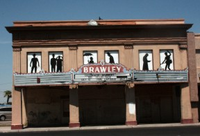 I took this picture from a public street I took this picture from a public street